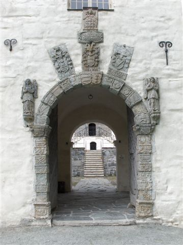 Austråttborgen (en: The Manor of Austrått), built 1656, in Ørland, Norway